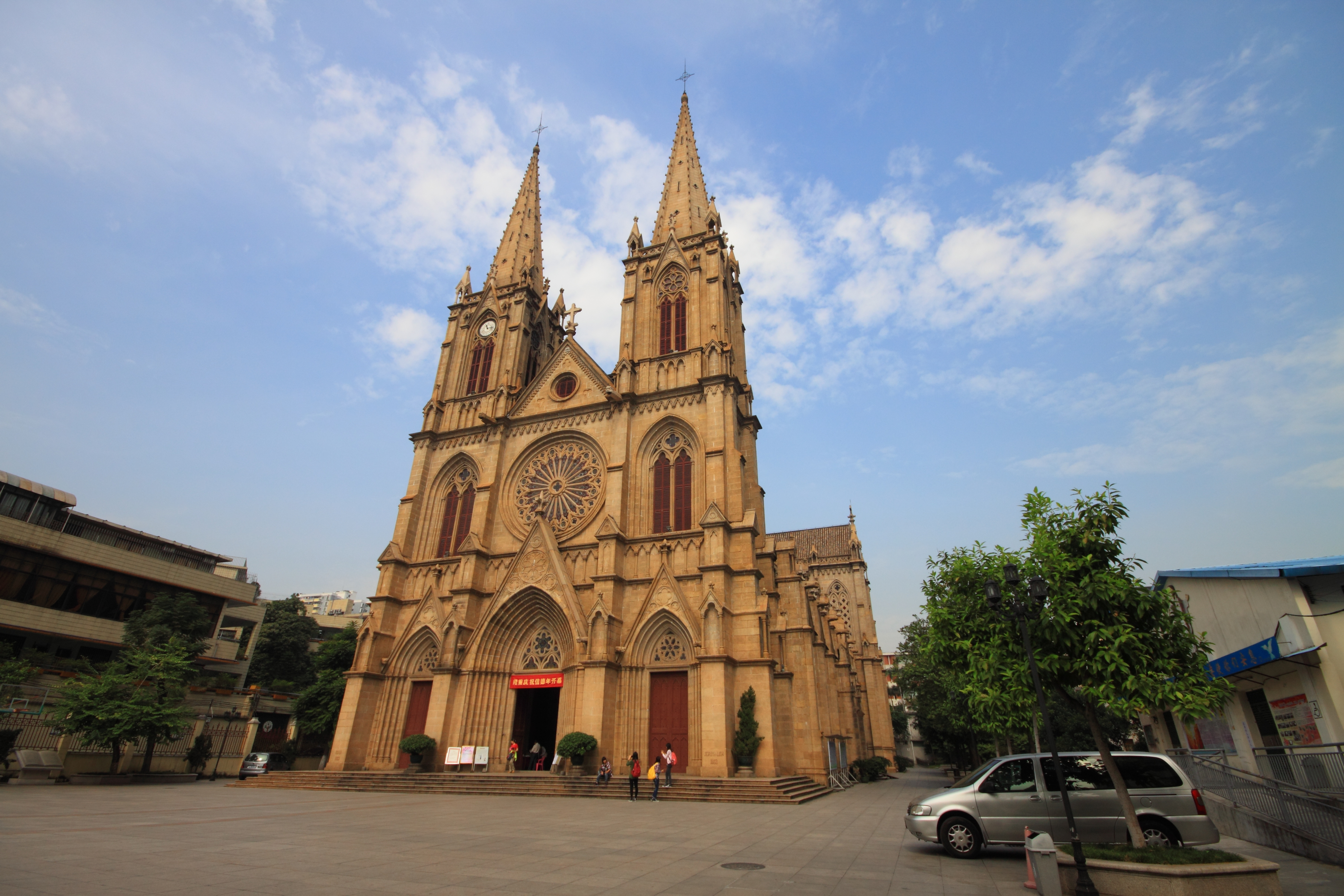 Sacred Heart Cathedral of Guangzhou，in Guangzhou, Guangdong, China.